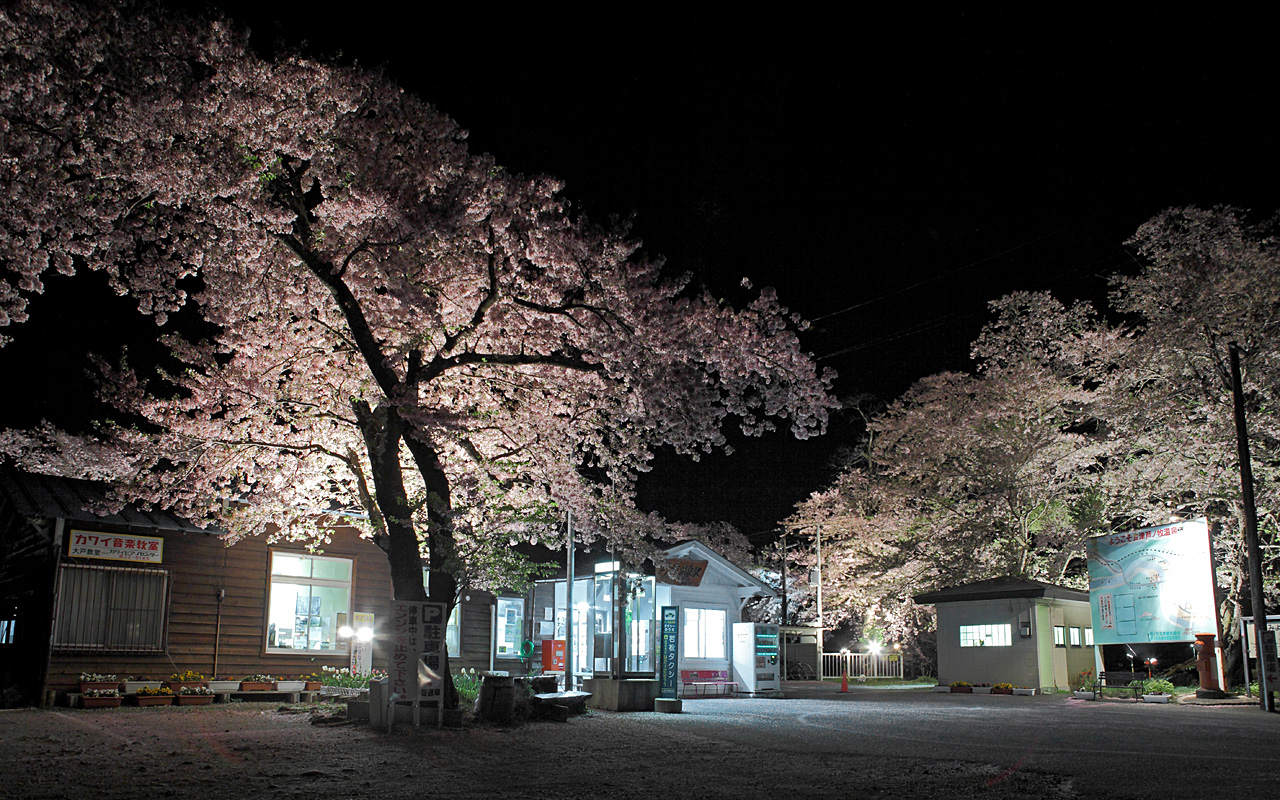 Aizu Railway Ashinomaki-Onsen Station